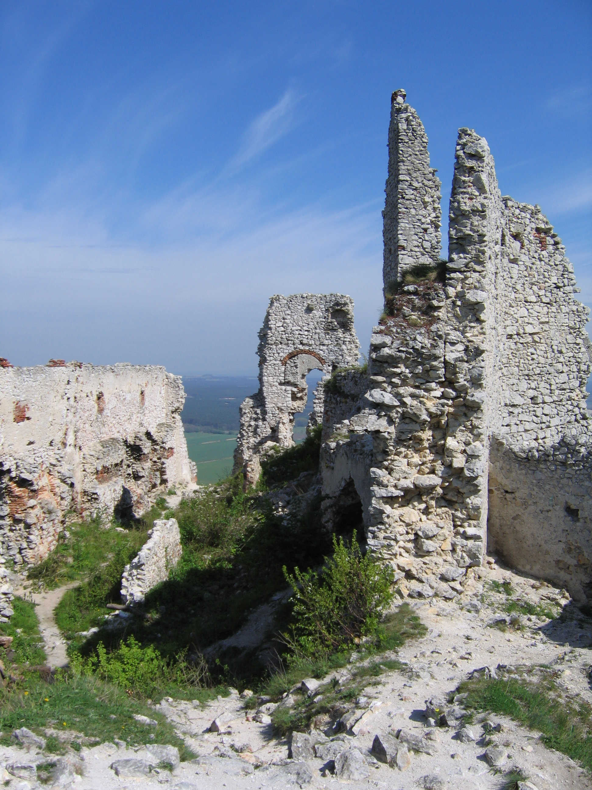 Ruins of Plavecký hrad, Slovakia, Castle Strečno, may 2005